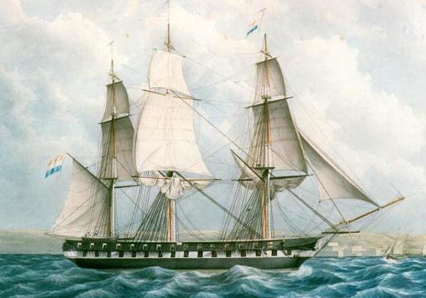 Part of a watercolor of the frigate "Doggersbank".